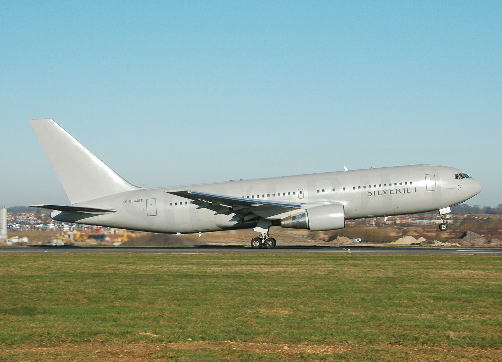 Silverjet Boeing 767-200 (G-SJET) taking off from London Luton Airport, England.